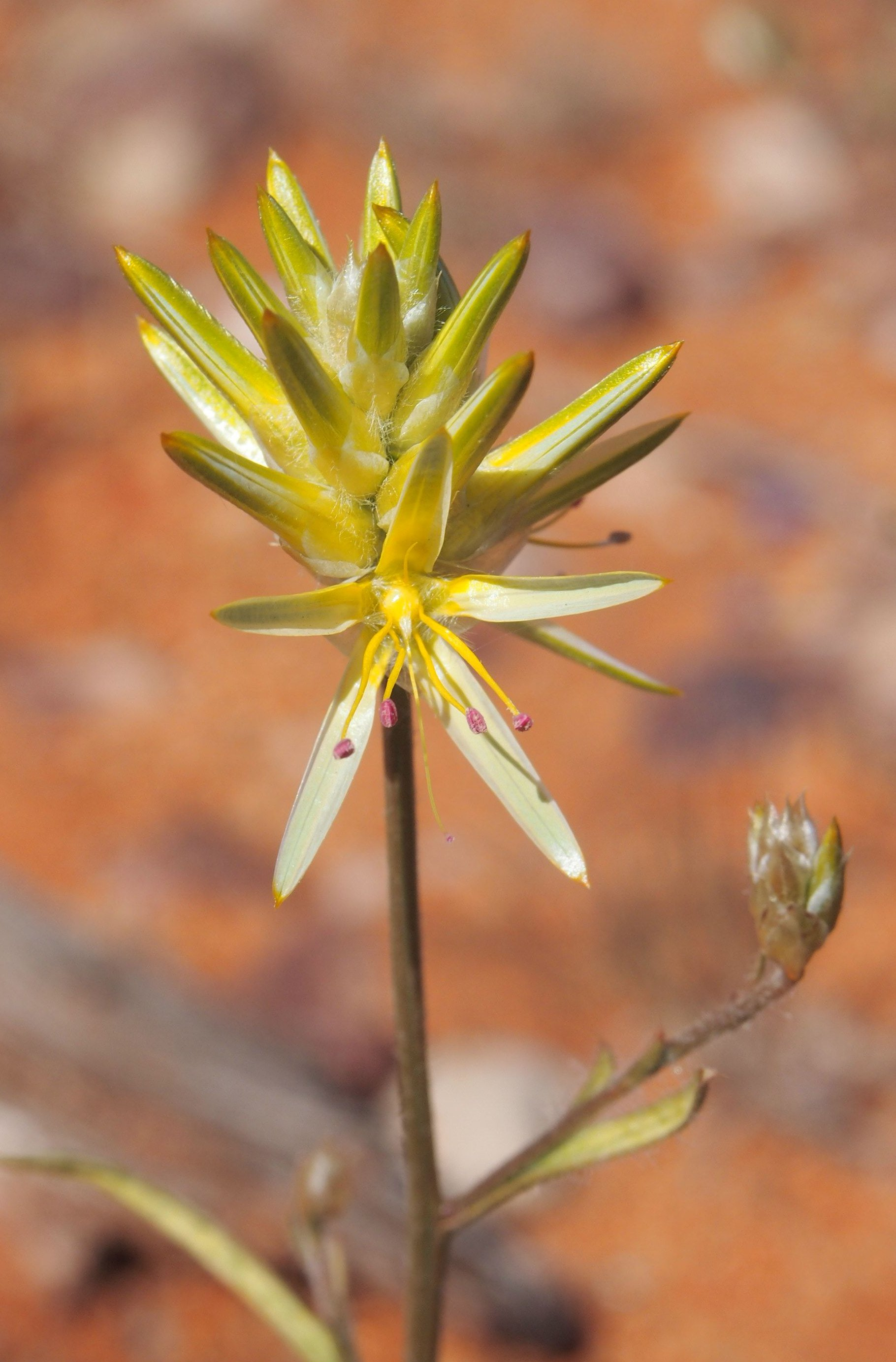 Ptilotus gaudichaudii flowers